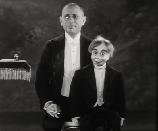 Erich von Stroheim in The Great Gabbo (1929) - cropped screenshot